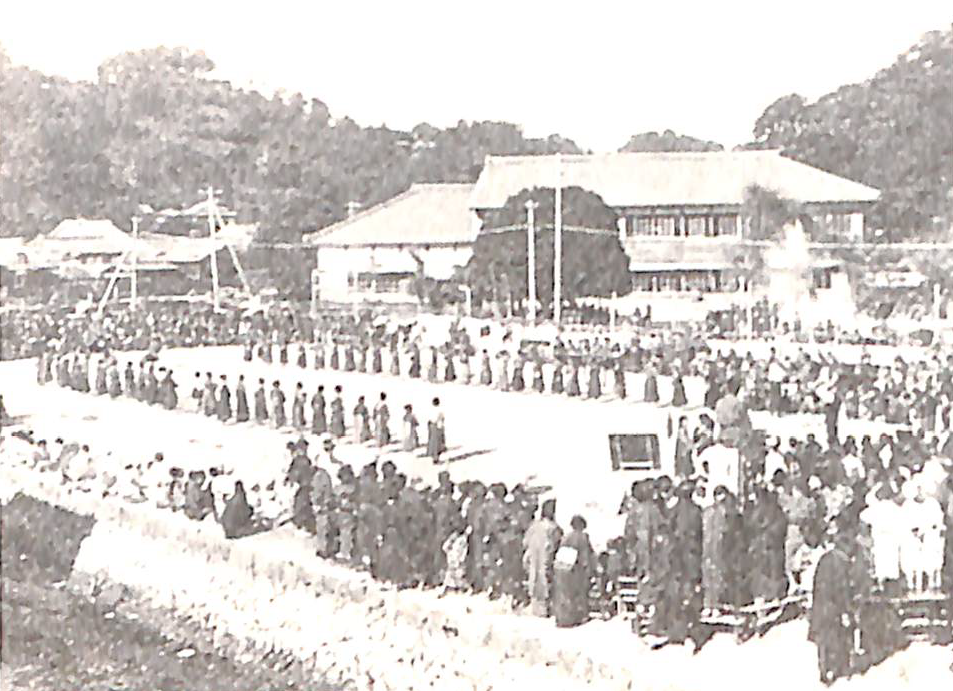 This is Toba common and higher elemntary school (Now Toba elementary school) in Toba, Mie, Japan.